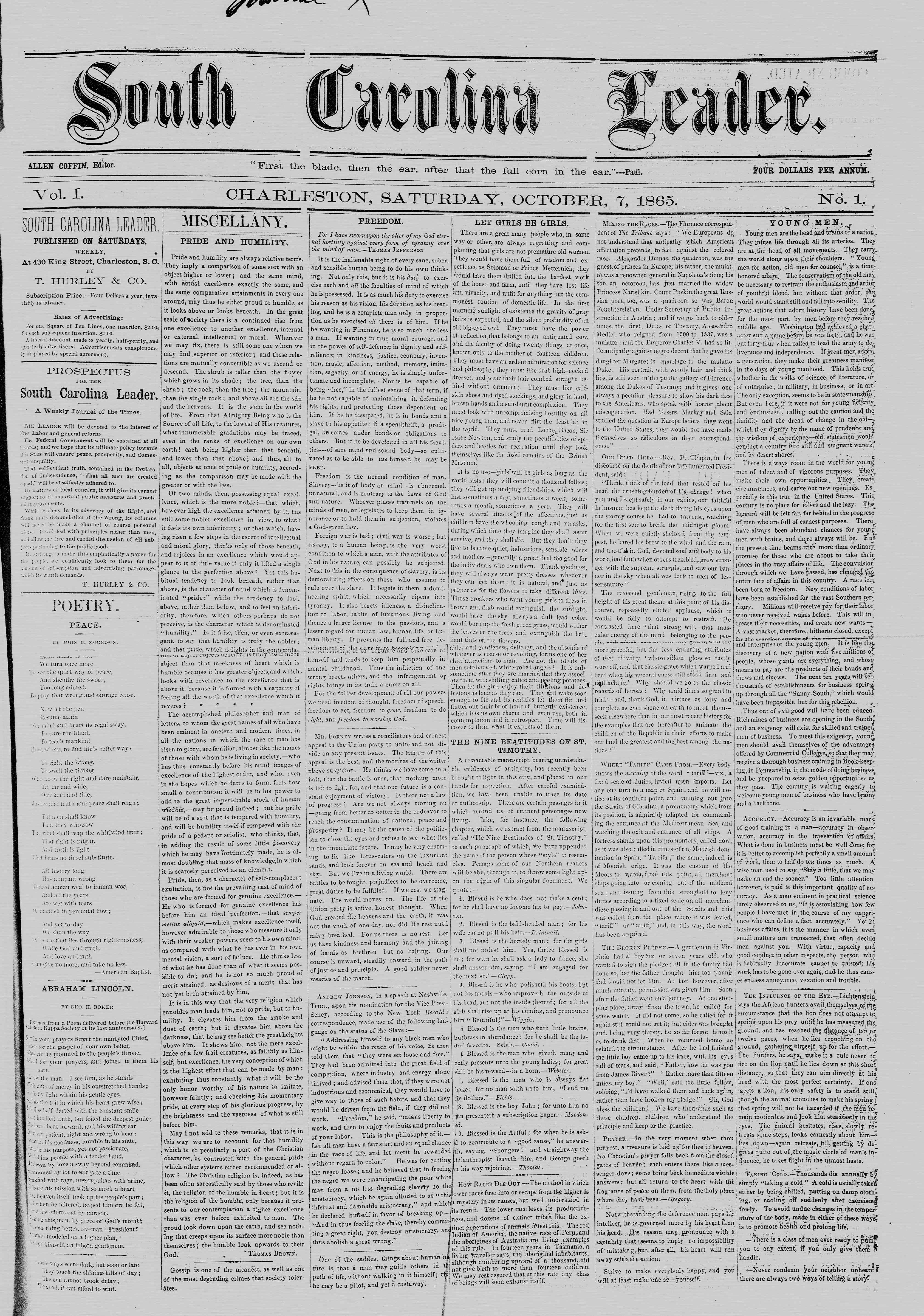 First page of the inaugural issue of the South Carolina Leader, the first African American newspaper in South Carolina, dated October 7, 1865.